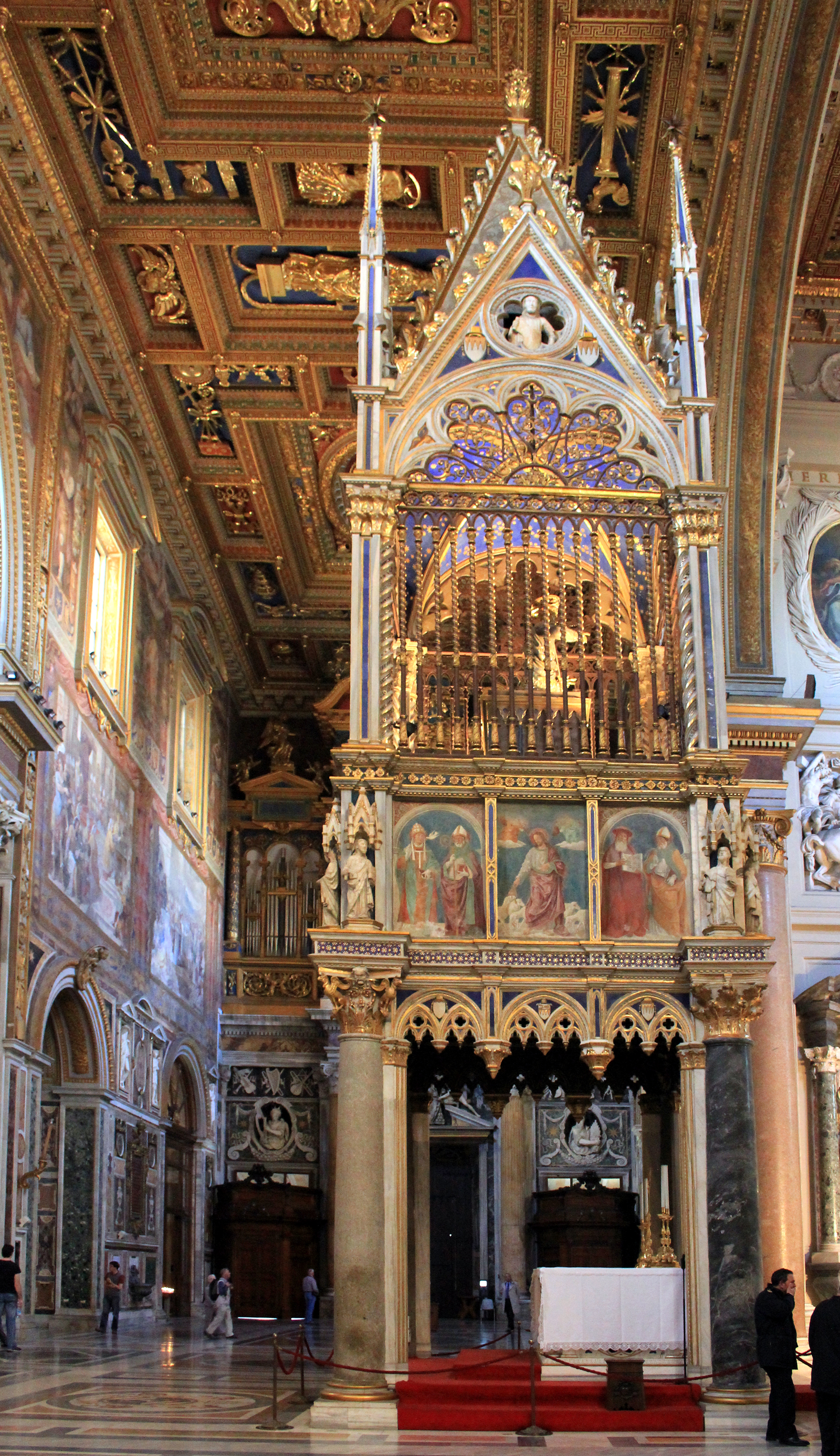 Ciborium of Basilica of St. John Lateran, Rome, Italy